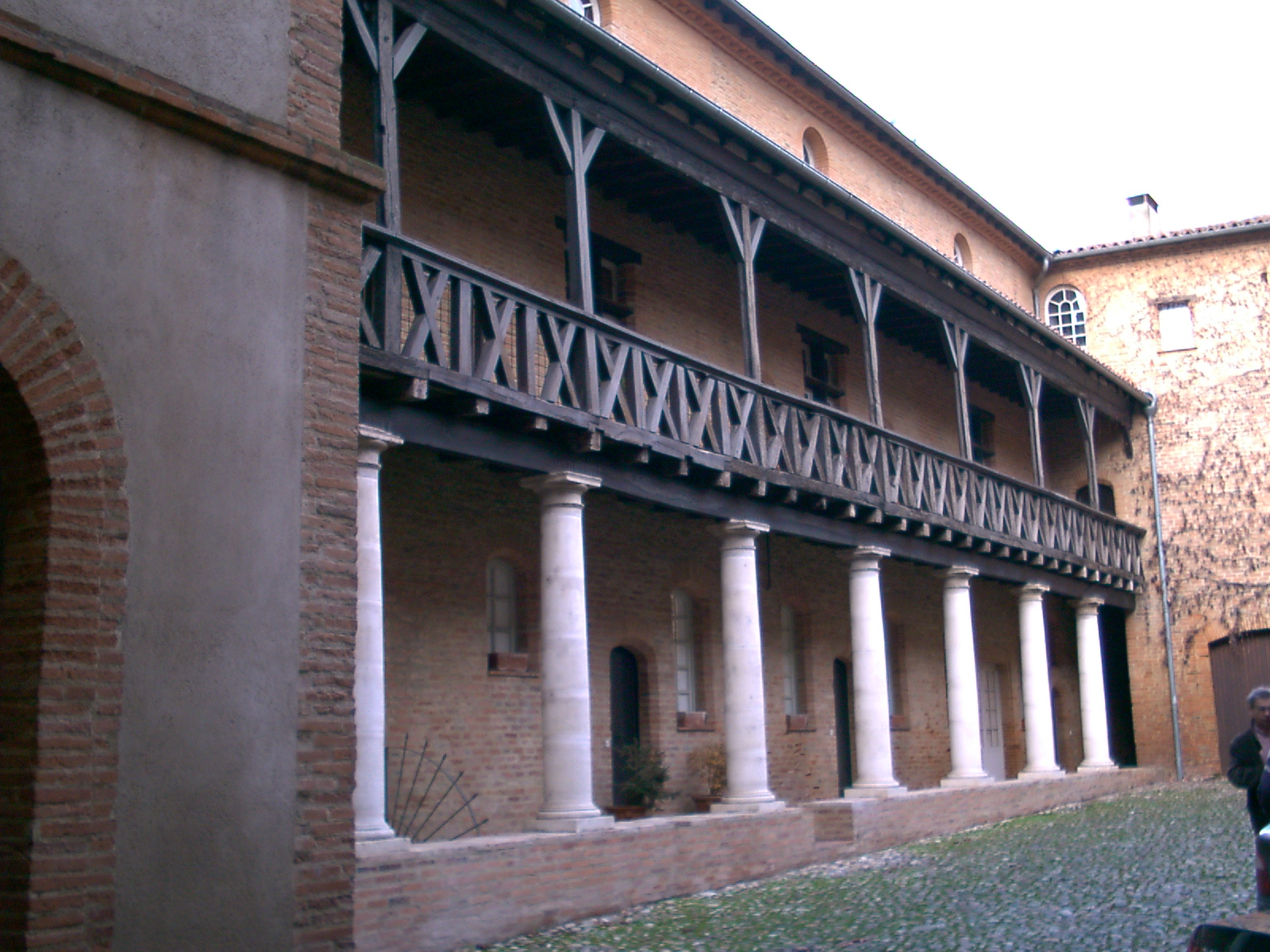 The former Collège de Navarre of Montauban